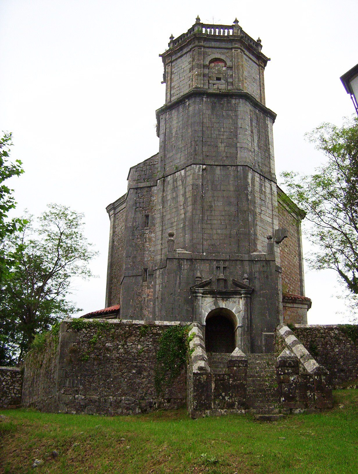 Church of Santa María Magdalena of Rucandio, in Riotuerto (Cantabria, Spain)